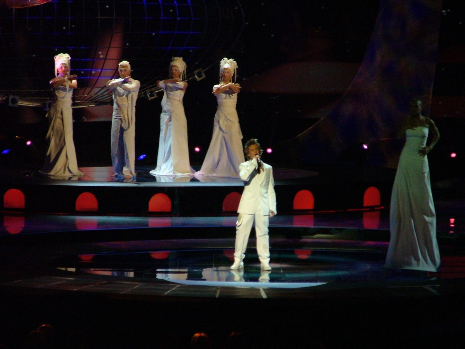 Eurovision Song Contes 2004 - Istambul